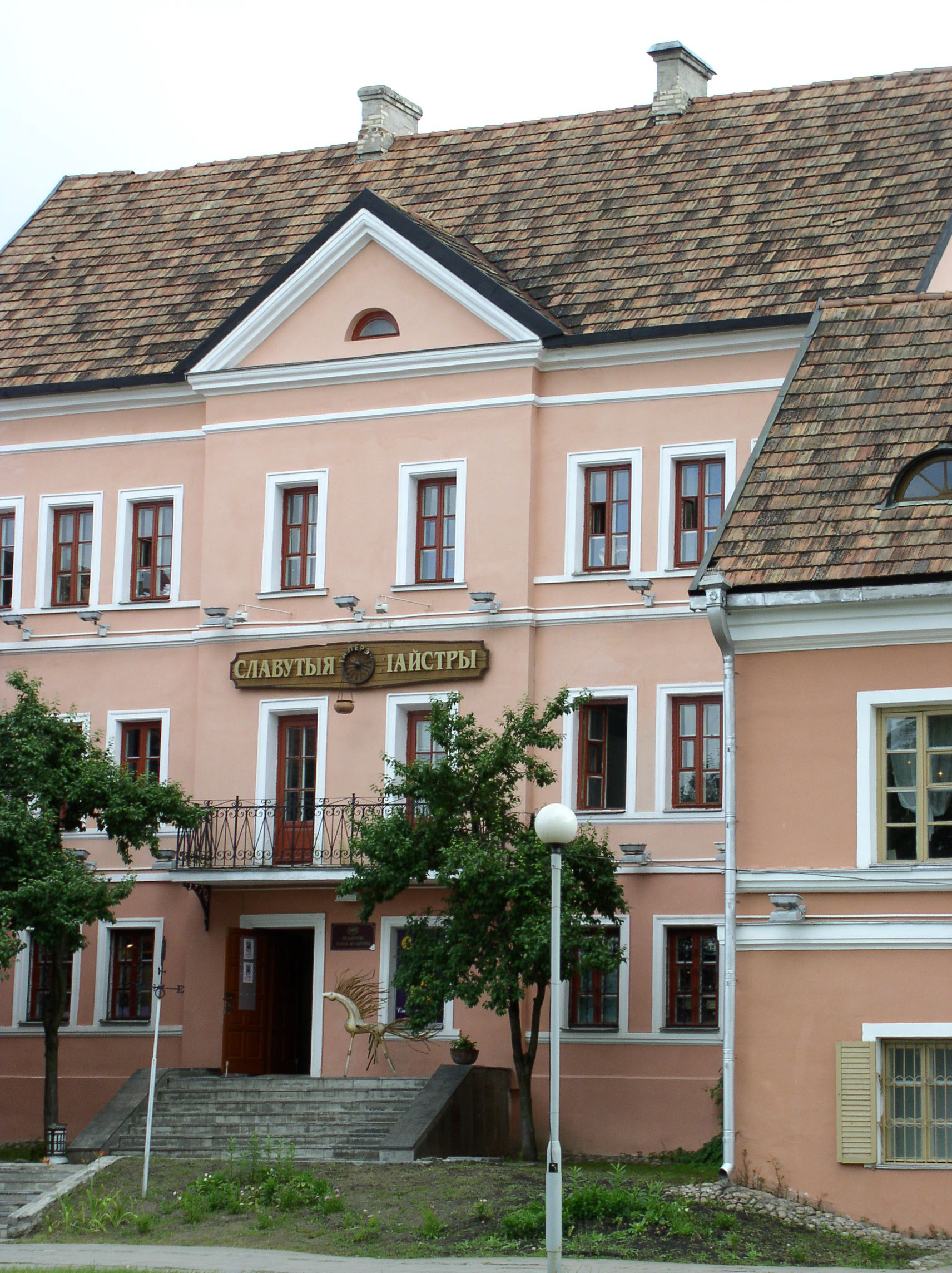 Traetskaye suburb, Minsk, Belarus.